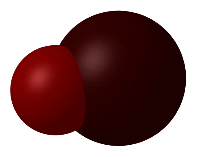 3D Spacefill of Astatine bromide